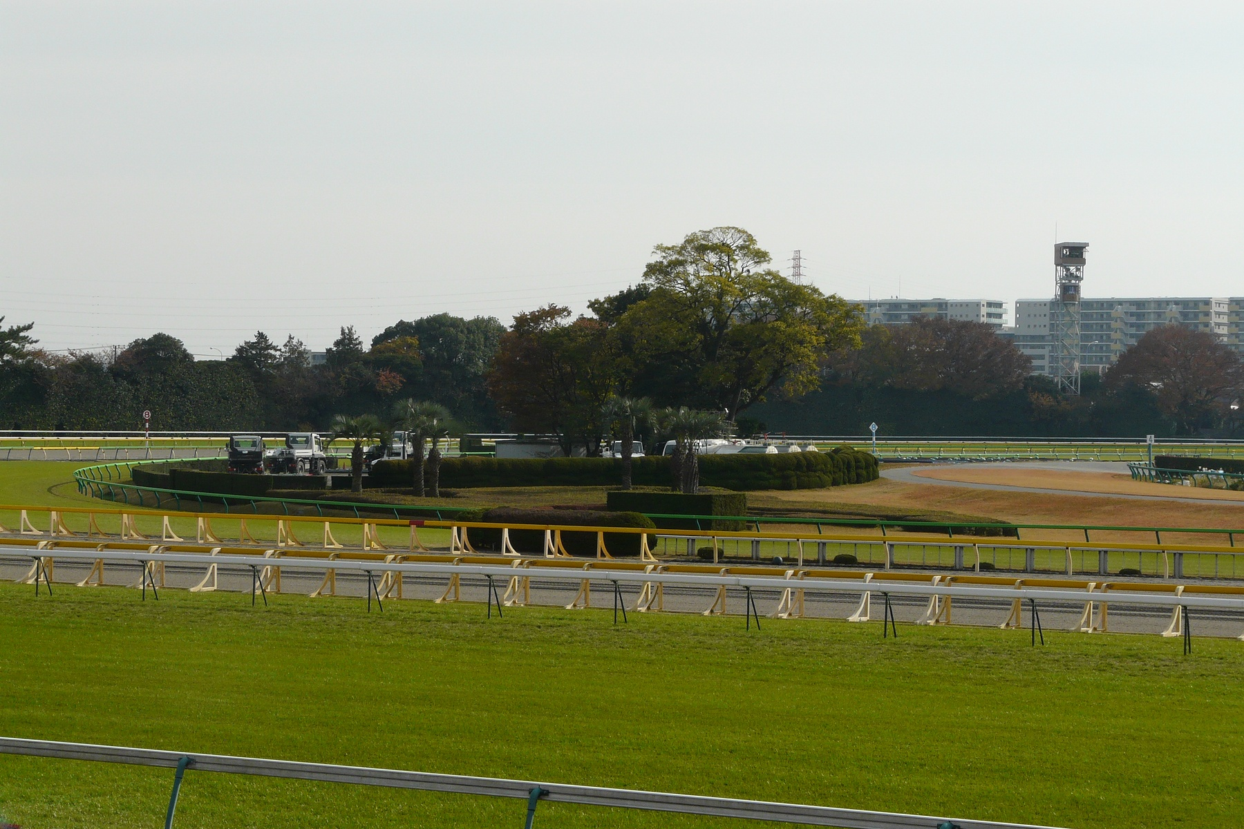 Tokyo-Racecourse-07